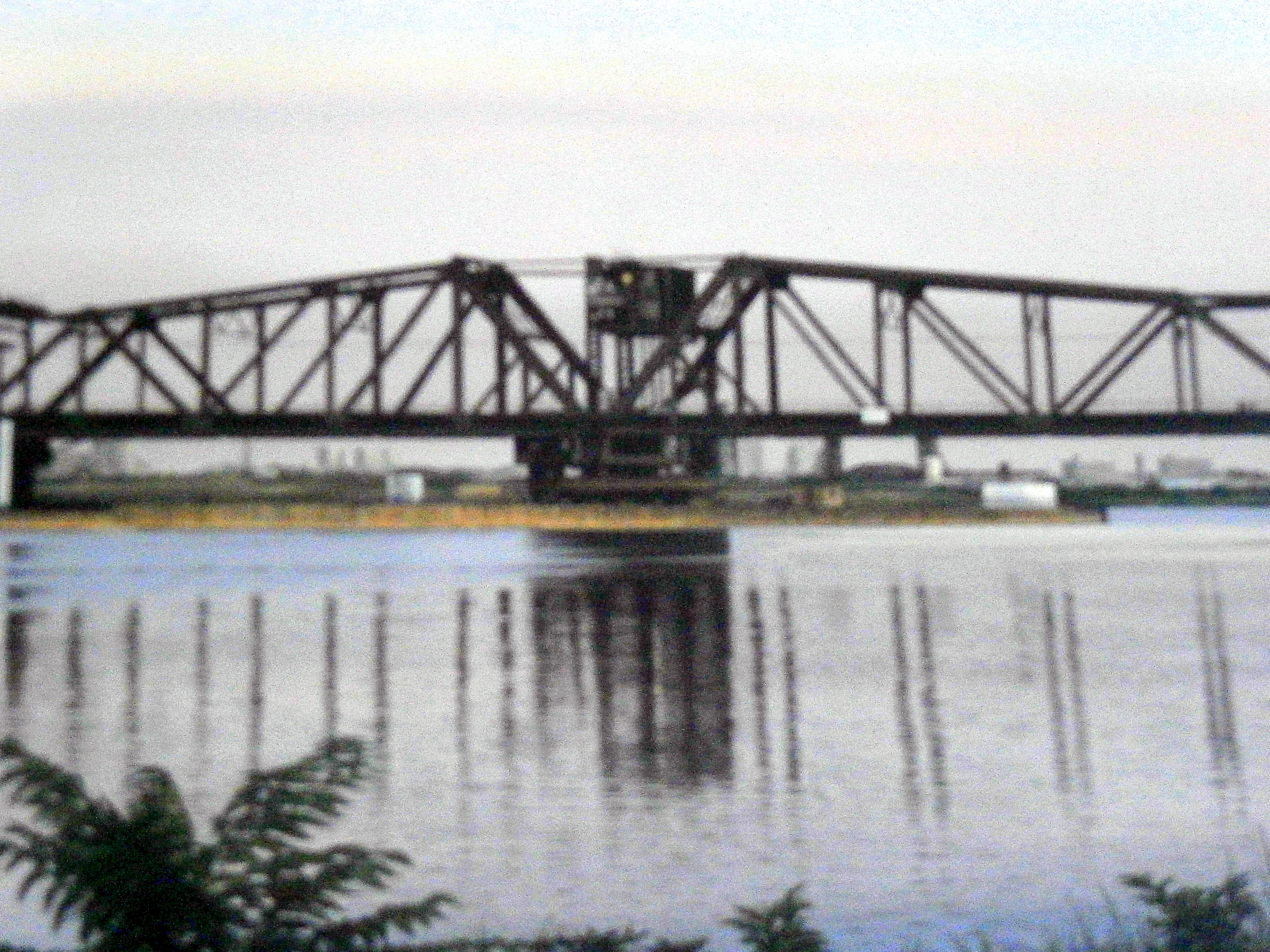 Portal Bridge over Hackensack River between Kearny and Secaucus, New Jersey